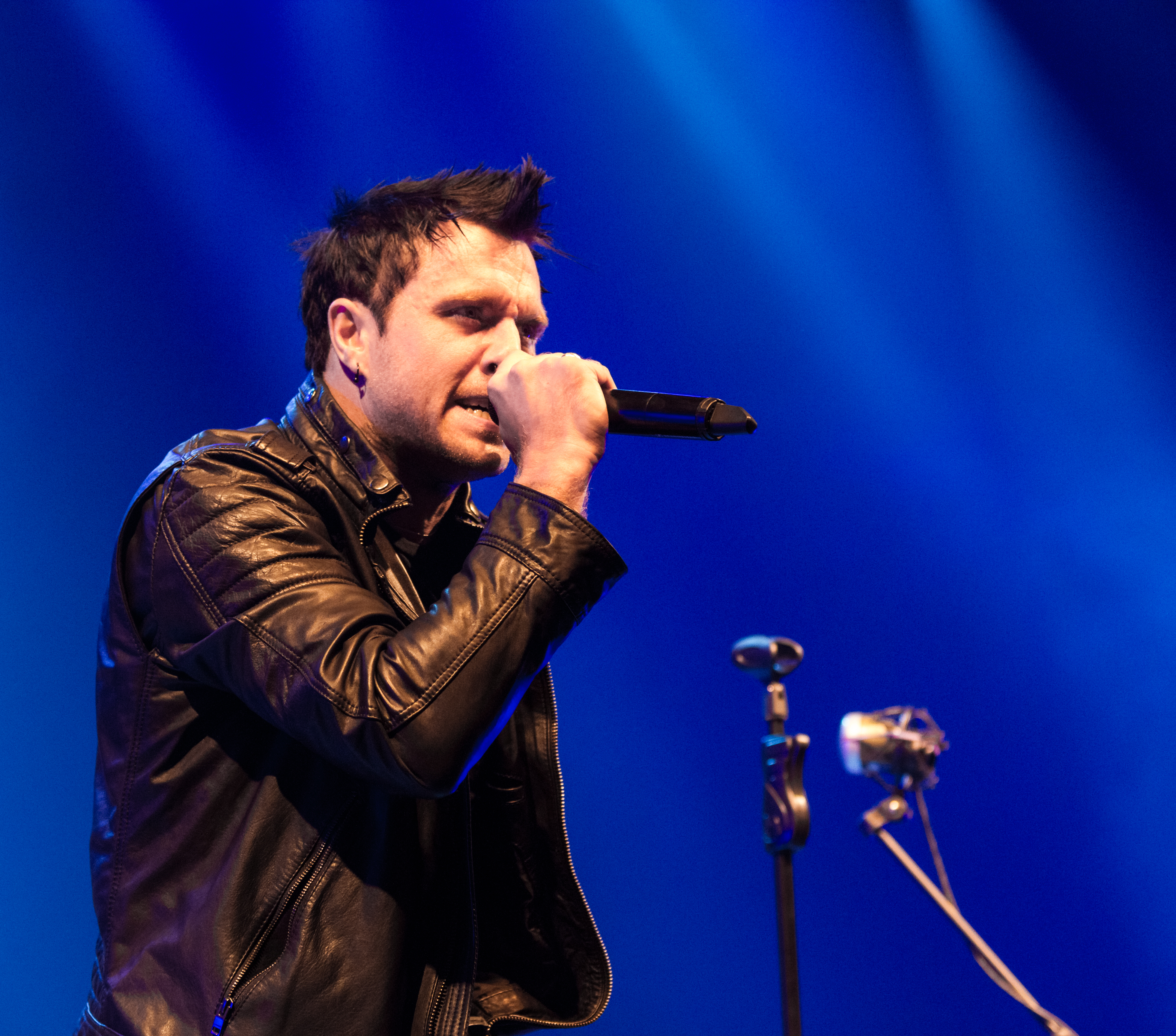 Three Days Grace - Rock am Ring 2015